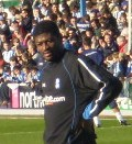 Radhi Jaïdi of Birmingham City F.C. warms up before the Championship game away against Colchester United